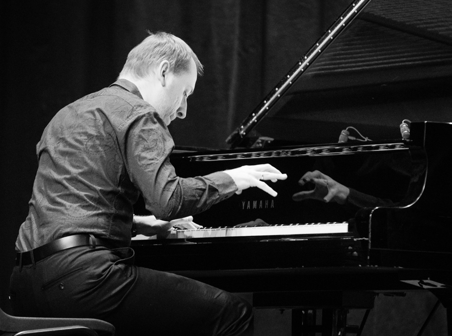 Dominik Wania in a concert with Maciej Obara Quartet at Cosmopolite. The concert took place on 14. February 2020 in Oslo. Lineup:Maciej Obara (saxophone)Dominik Wania (piano)Ole Morten Vågan (double bass)Gard Nilssen (drums)